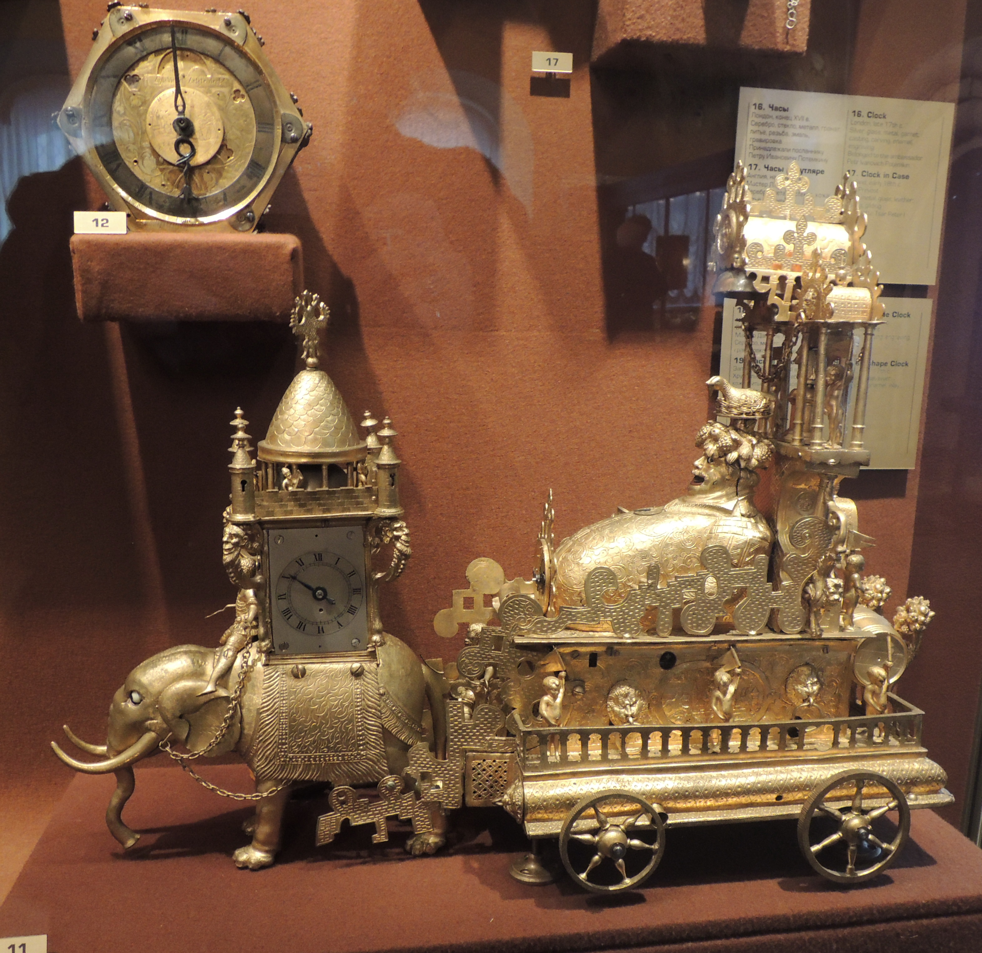 Bacchus table clock (Augsburg 16th century) in gilded bronze. The Greek god of wine and merriment, Dionysus (Bacchus for the Romans), lies on an four-wheeled chariot pulled by an elephant. Bacchus brings a glass of wine to his mouth, move his eyes back and forth, the bird with a nest on the God’s head pecks at the grapes, the guards at the tower patrol in circles, the elephant also move his eyes and pull the chariot forward. A man standing behind Bacchus strikes the time on the bell. It is assumed that the clock was given to Tzar Ivan the Terrible, because it is known that at the end of the 16th century it was in the Palace of Facets during the reception of foreign ambassadors.